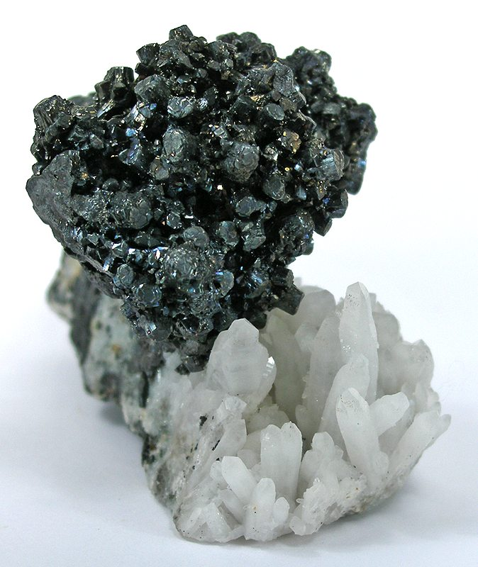 Pyrargyrite, Quartz Locality: Taxco de Alarcón (Taxco; Tasco), Municipio de Taxco, Guerrero, Mexico (Locality at ) Size: cabinet, 12 x 8.7 x 7 cm Pyrargyrite on Quartz A superb, arborescent cluster of lustrous and sharp pyrargyrite crystals are here perched on crystallized quartz matrix. This is an extraordinarily rare occurrence, and a fine specimen from any locality. But for Taxco, where such large matrix pieces are rare, it is even of more import. This specimen from the Dr Miguel Romero collection was on loan exhibition to the University of Arizona Museum for over a decade, until my purchase of this collection in 2008. It was on display in special cases at the museum, and has since been featured in the book "The Miguel Romero Collection of Mexico Minerals" which we sponsored as a special supplement book (published by the Mineralogical Record in December of 2008).